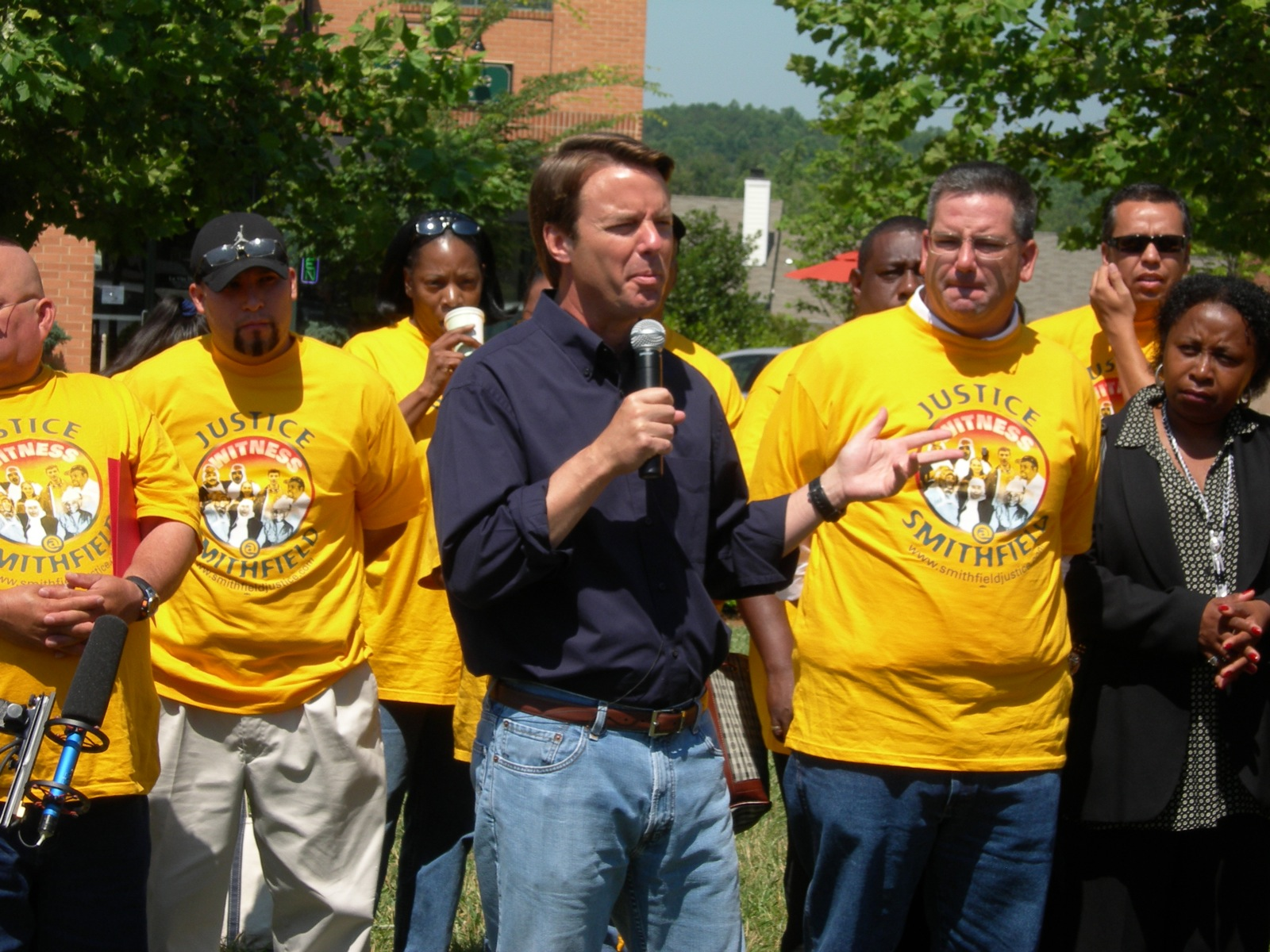 John Edwards met with Smithfield workers to support their effort to organize and to discuss the struggles they face and the importance of protecting workers’ right to organize. Their meeting took place in Chapel Hill, N.C. on June 21, 2007. Photo by Adam Lord.